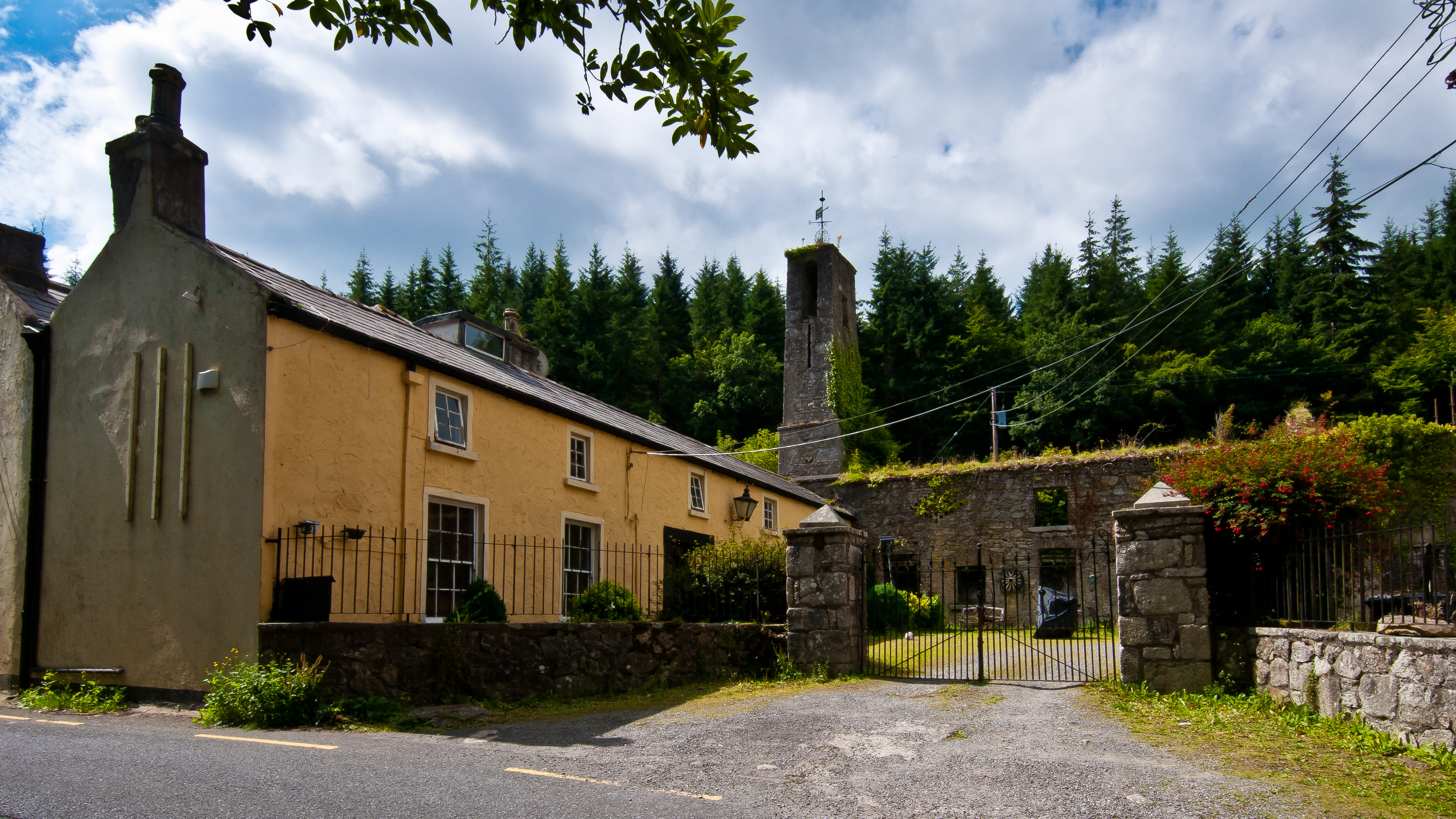 The Steward's House at Killakee on Mountpelier Hill, Dublin, Ireland.